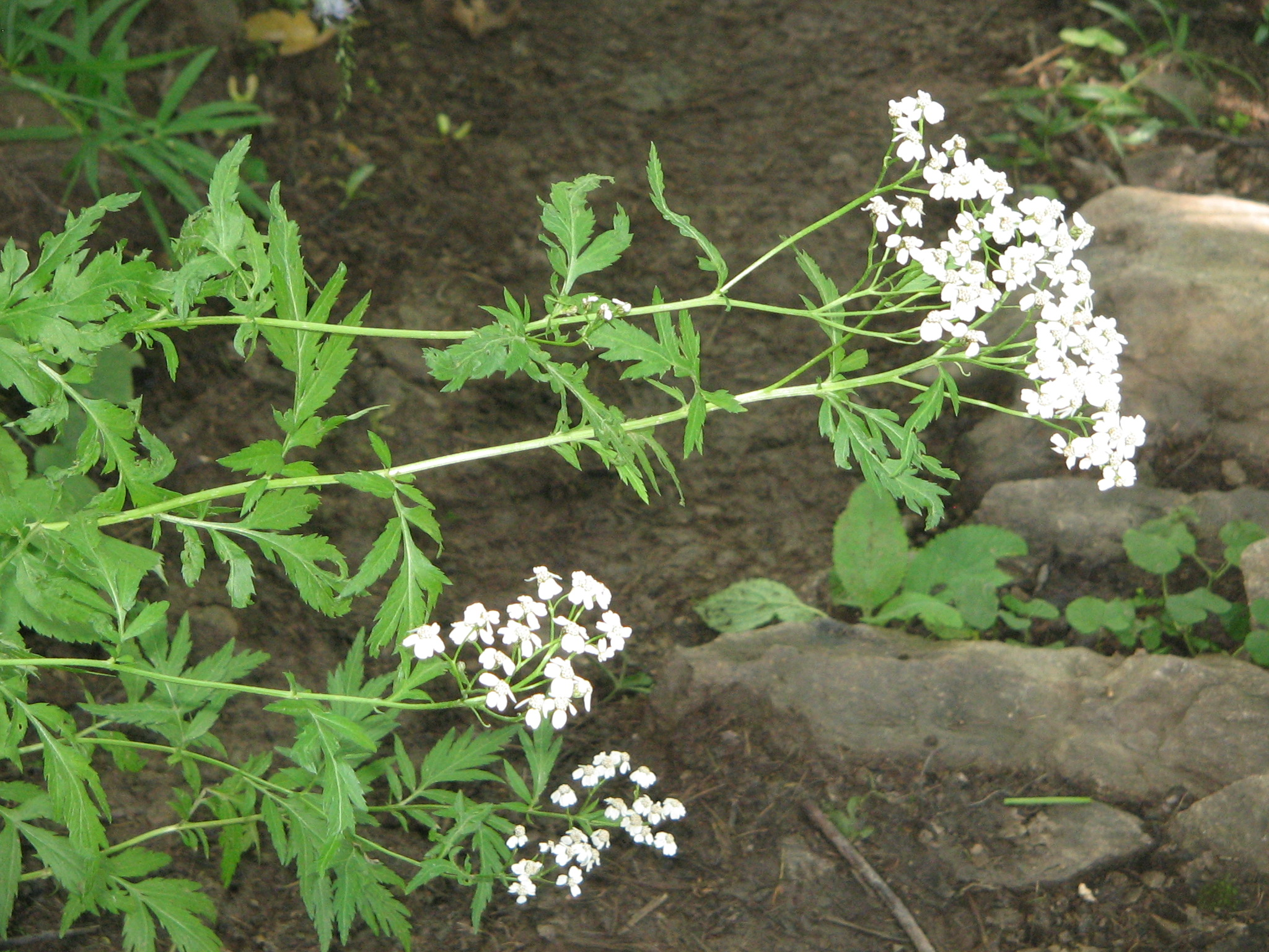 Achillea macrophylla